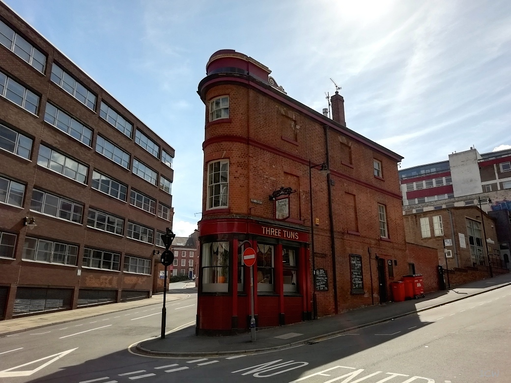 The Three Tuns, Sheffield, the iconic triangular, corner architectural delight, and former Nun's washhouse, circa early 1800s